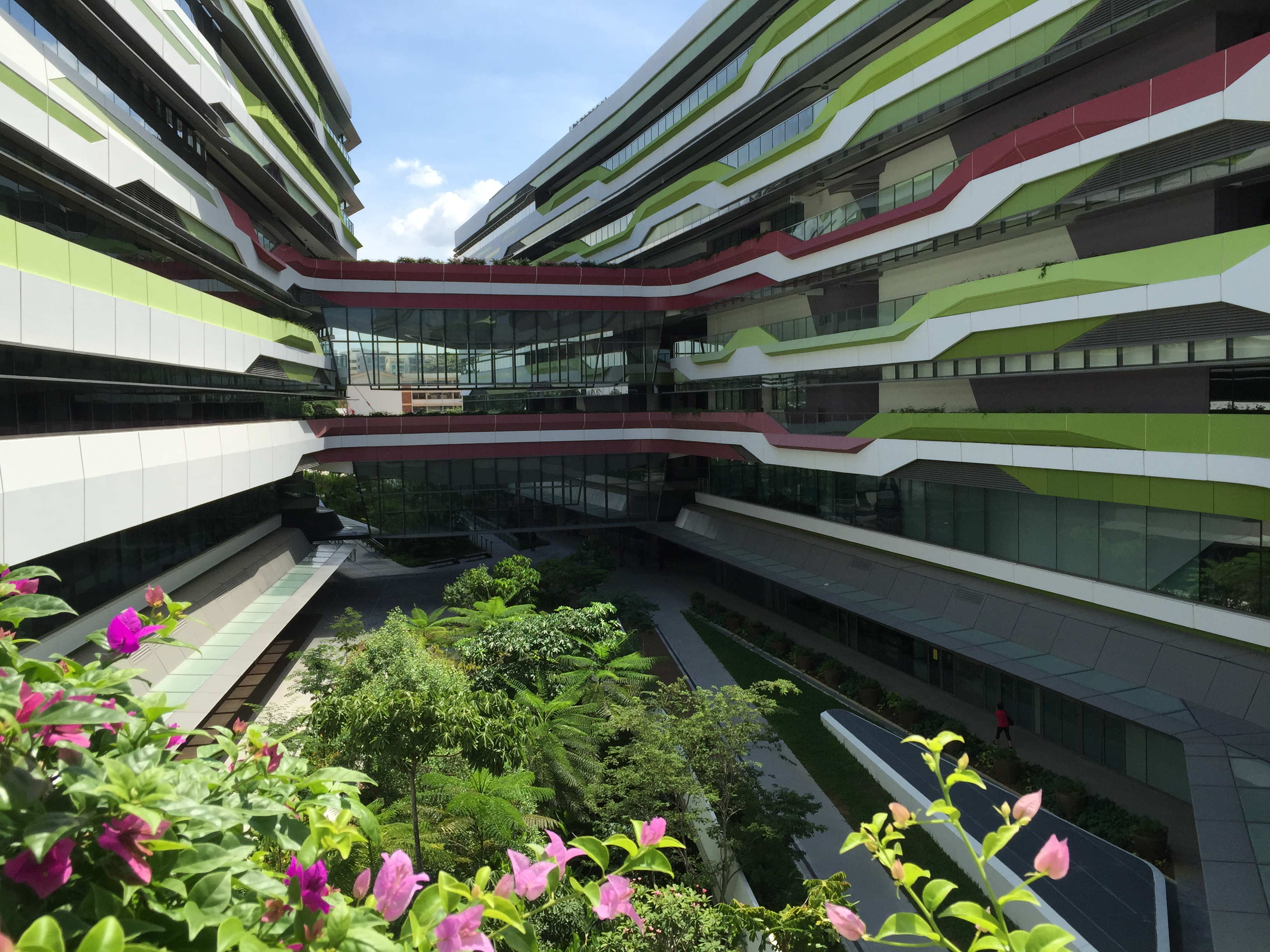 The Singapore University of Technology and Design.